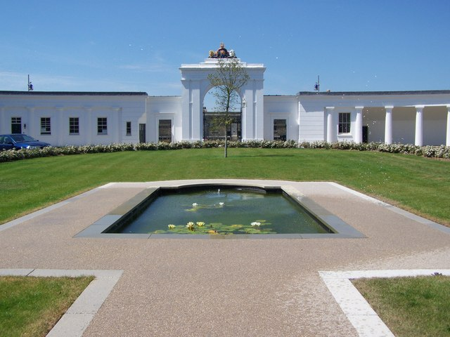 Clarence yard The old victualling yard for storing goods for the Royal Navy